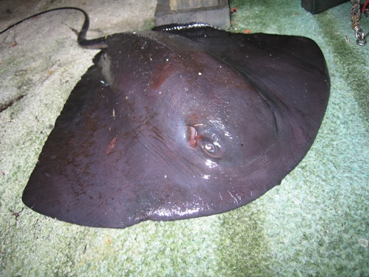 Pelagic stingray (Pteroplatytrygon violacea)